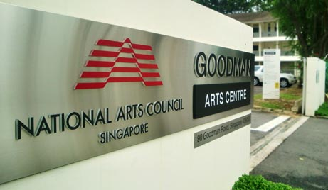 Main entrance of Goodman Arts Centre, Singapore